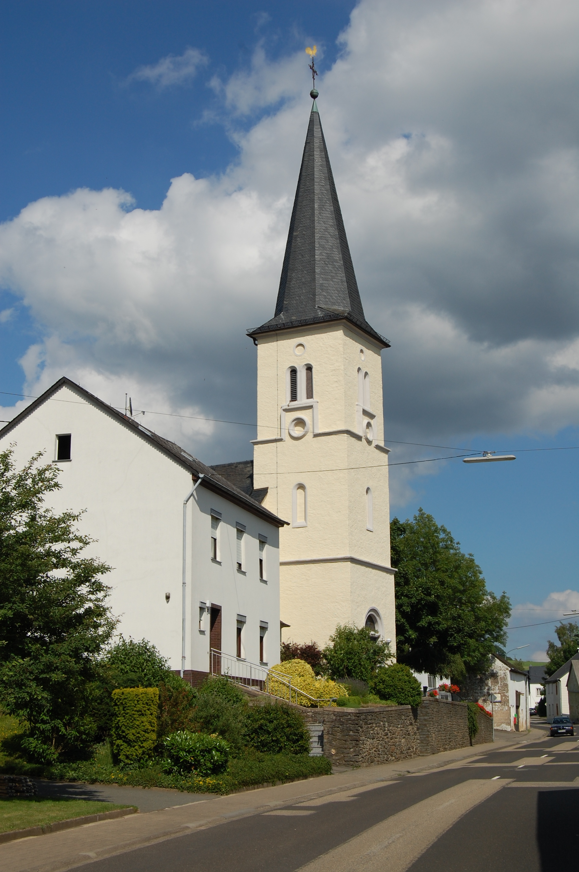 Church Lorscheid in the Hunsrück landscape, Germany.